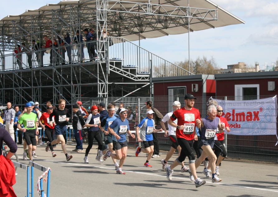 Joensuu maraton in Mehtimäki